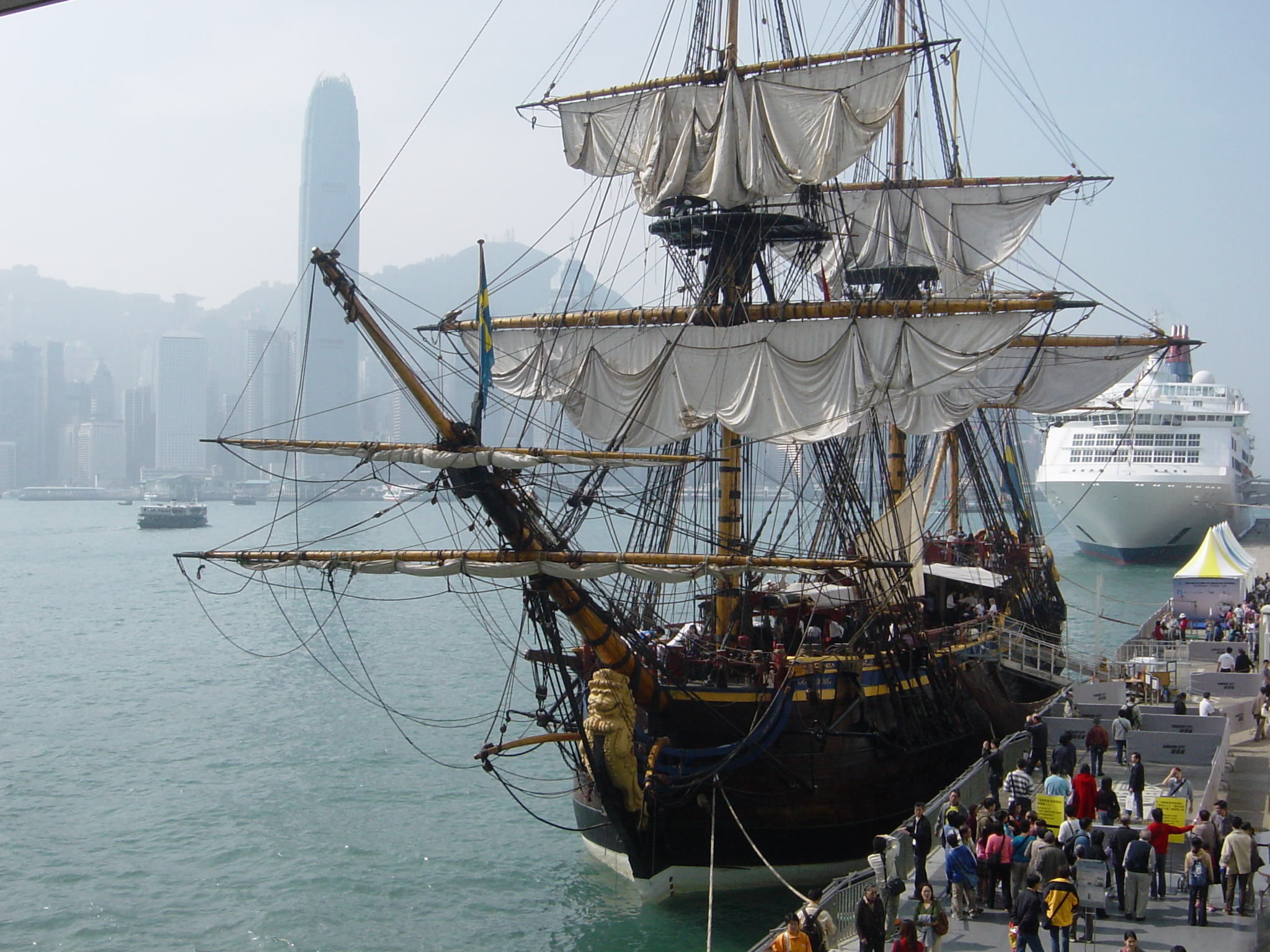 哥德堡號，Ship Götheborg